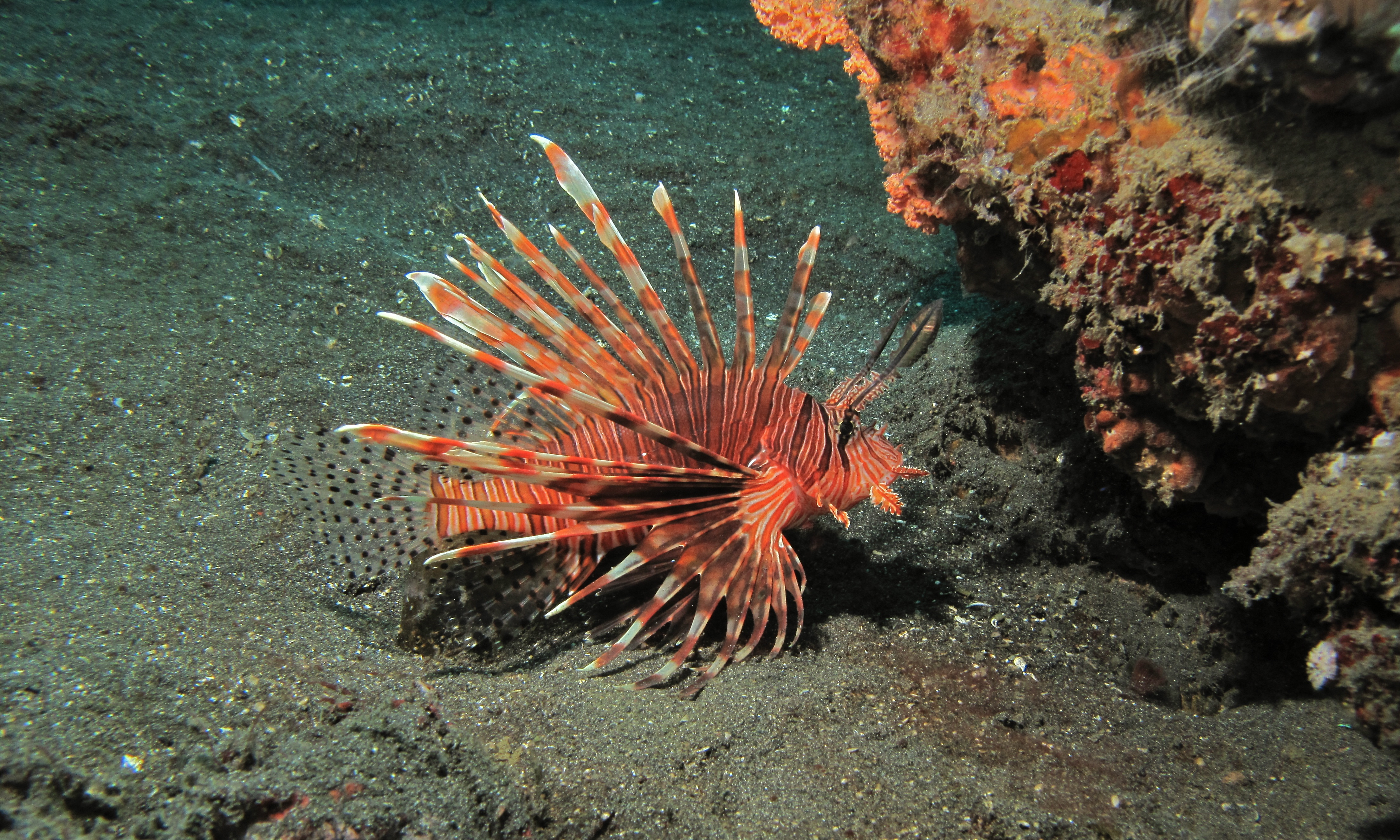 Magic Rocks, Lembeh Strait, Sulawesi, INDONESIA